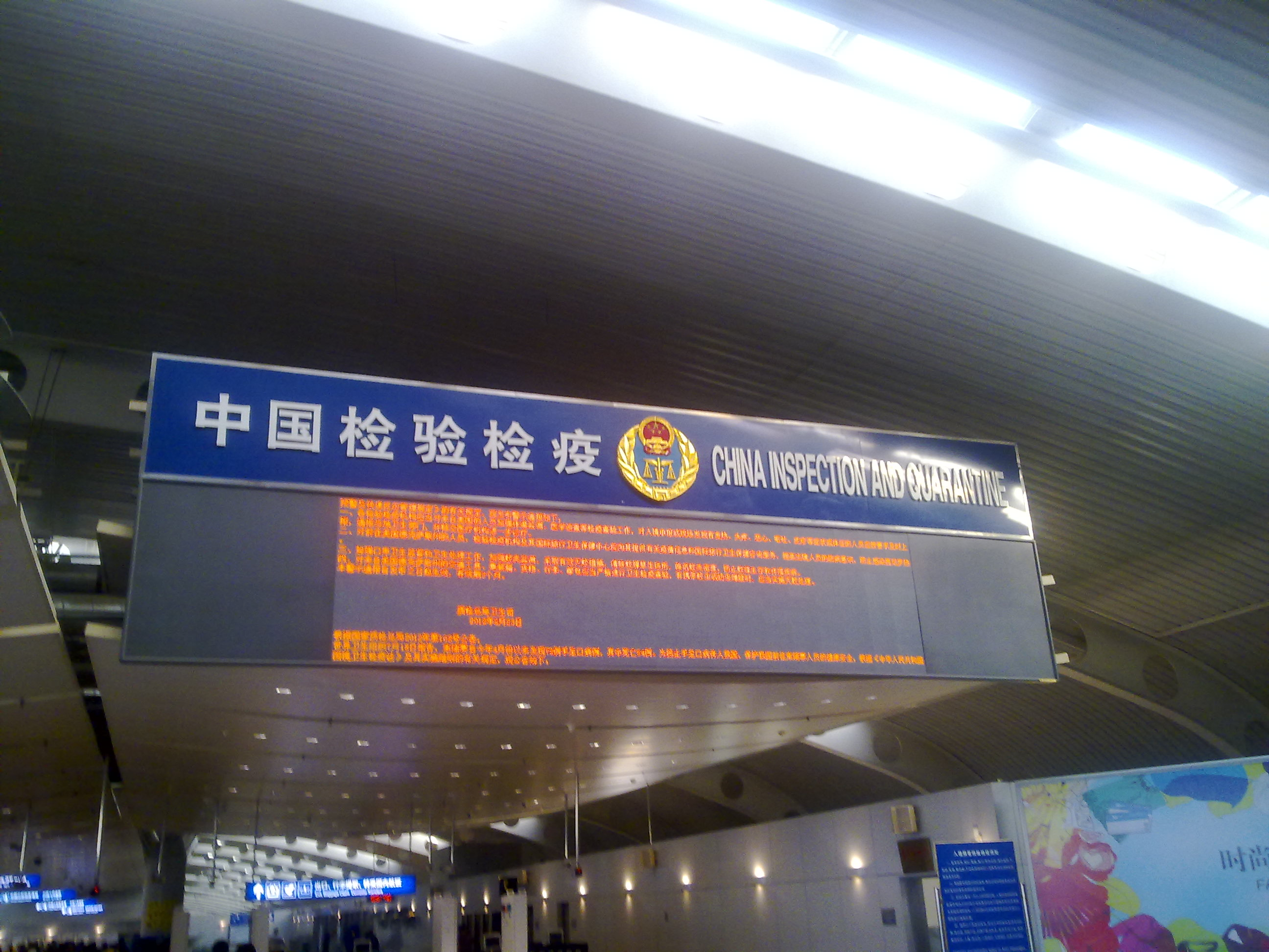 The emblem of the China Inspection and Quarantine at the Beijing International Airport.